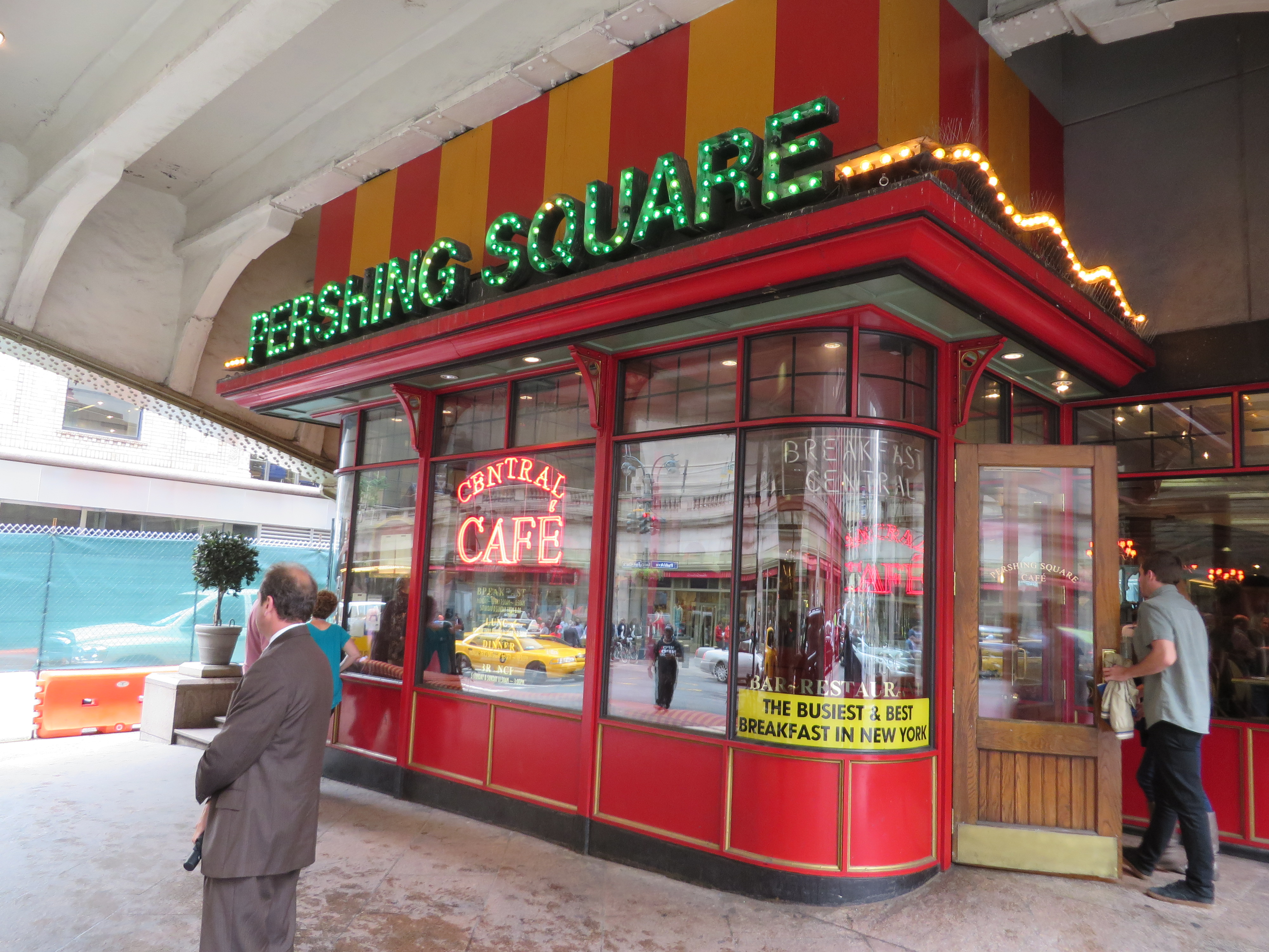 The Pershing Square Cafe, formerly the Central Café, at 90 East 42nd Street, Manhattan, New York City, in Pershing Square.